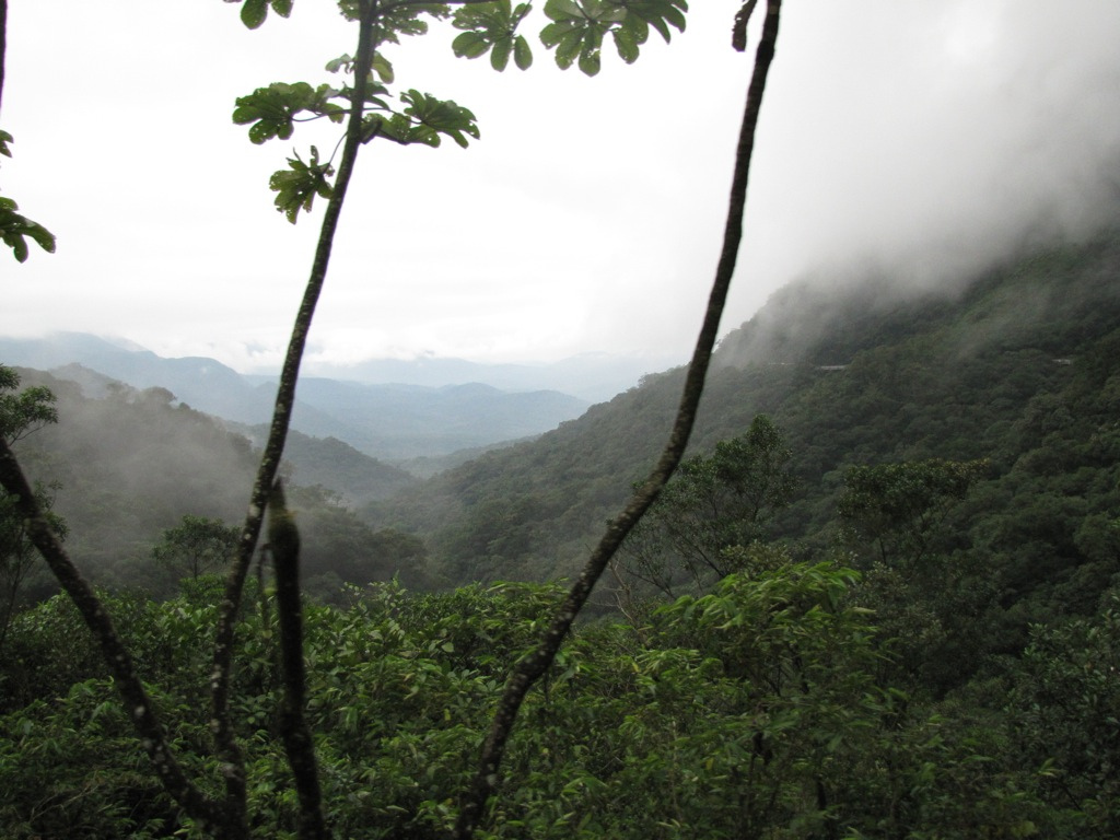 Jungle in Paraná, Brazil.